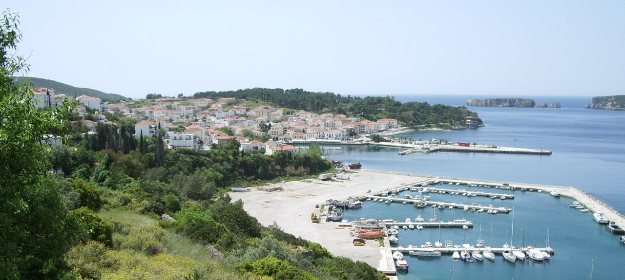 Pylos from the north